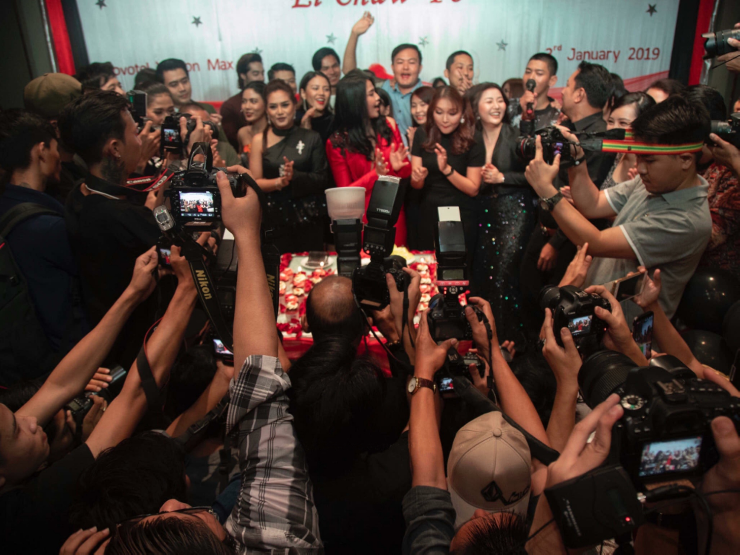 Actress Ei Chaw Po at the event in Novotal Yangon Max